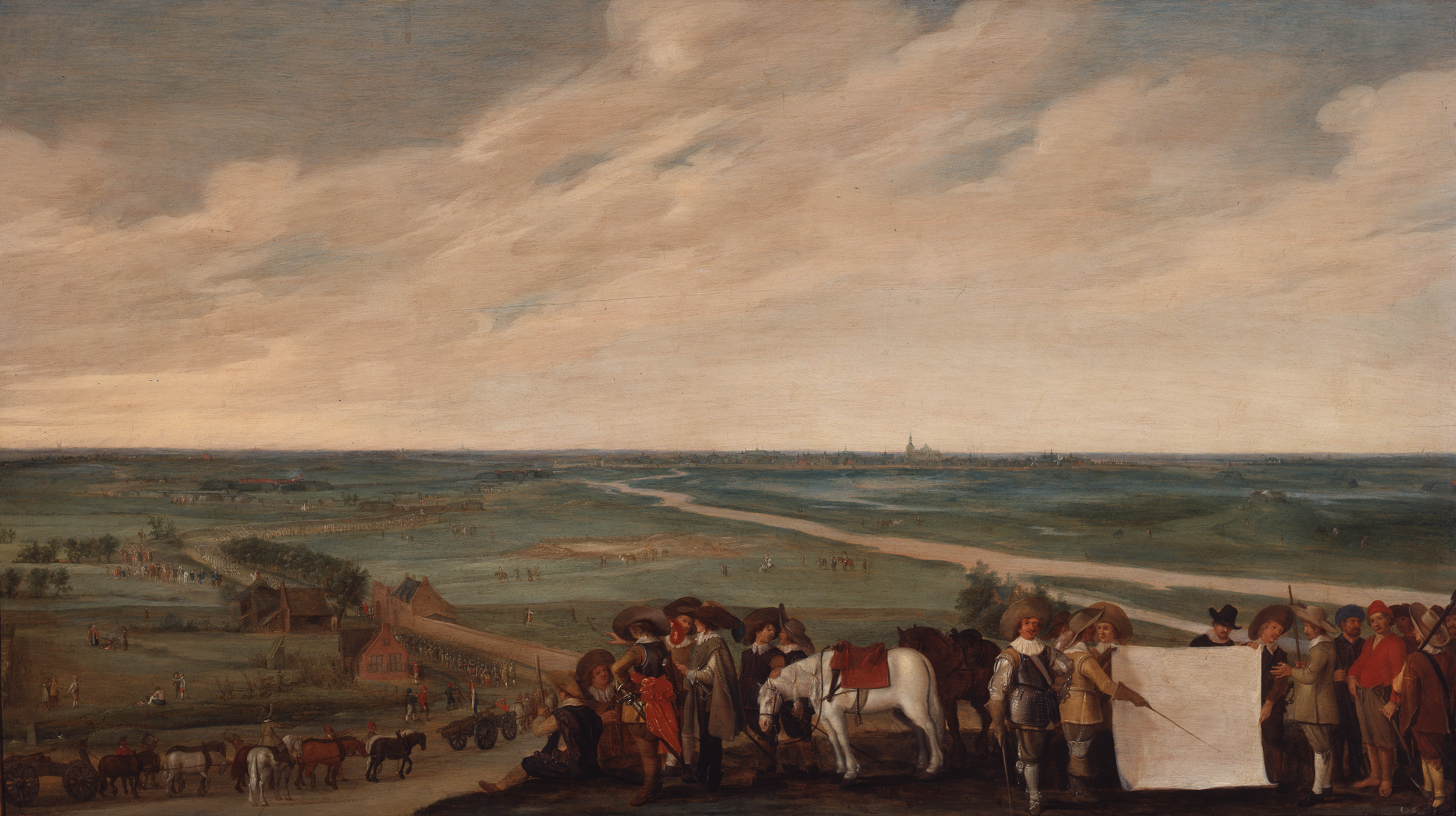 the preparation of the siege of 's-Hertogenbosch, 1629. On the foreground commanders and on the background artillery is pulled